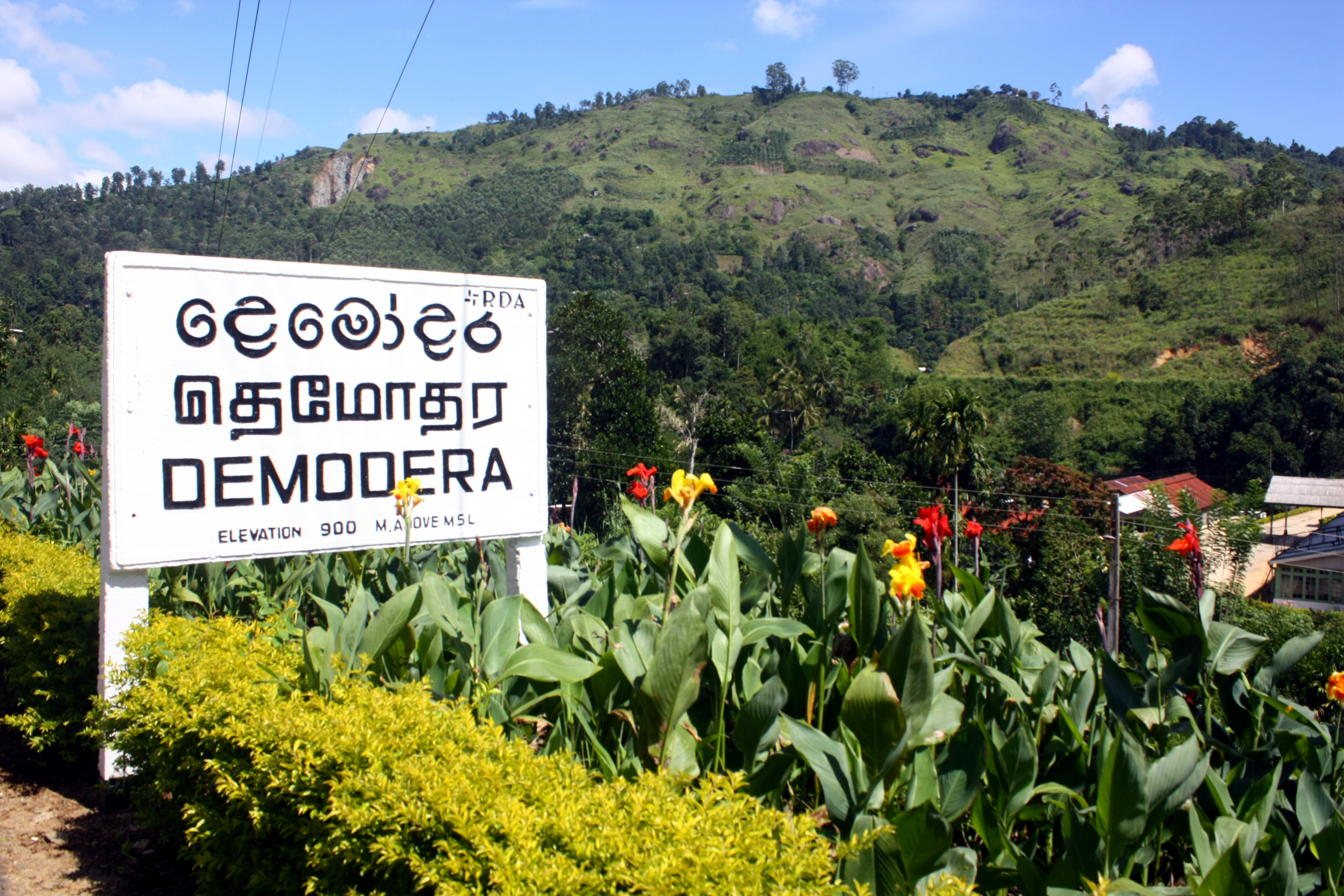 Demodara name board near Demodara railway station